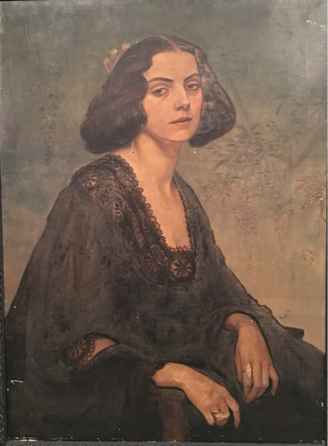 Ellen von ohl portrait, by Gerda Wegener